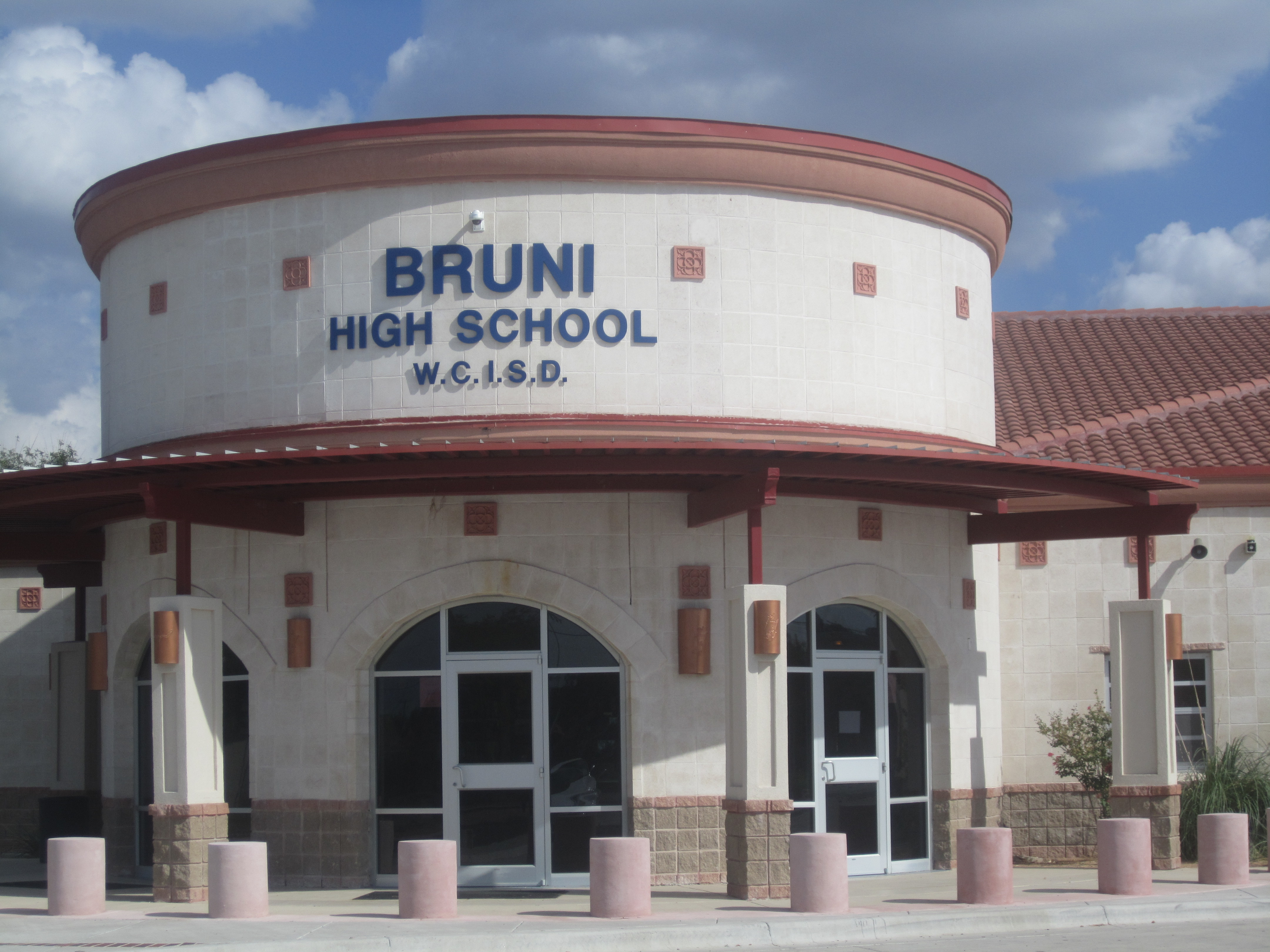 I took photo of Bruni High School in Bruni, TX, with Canon camera.